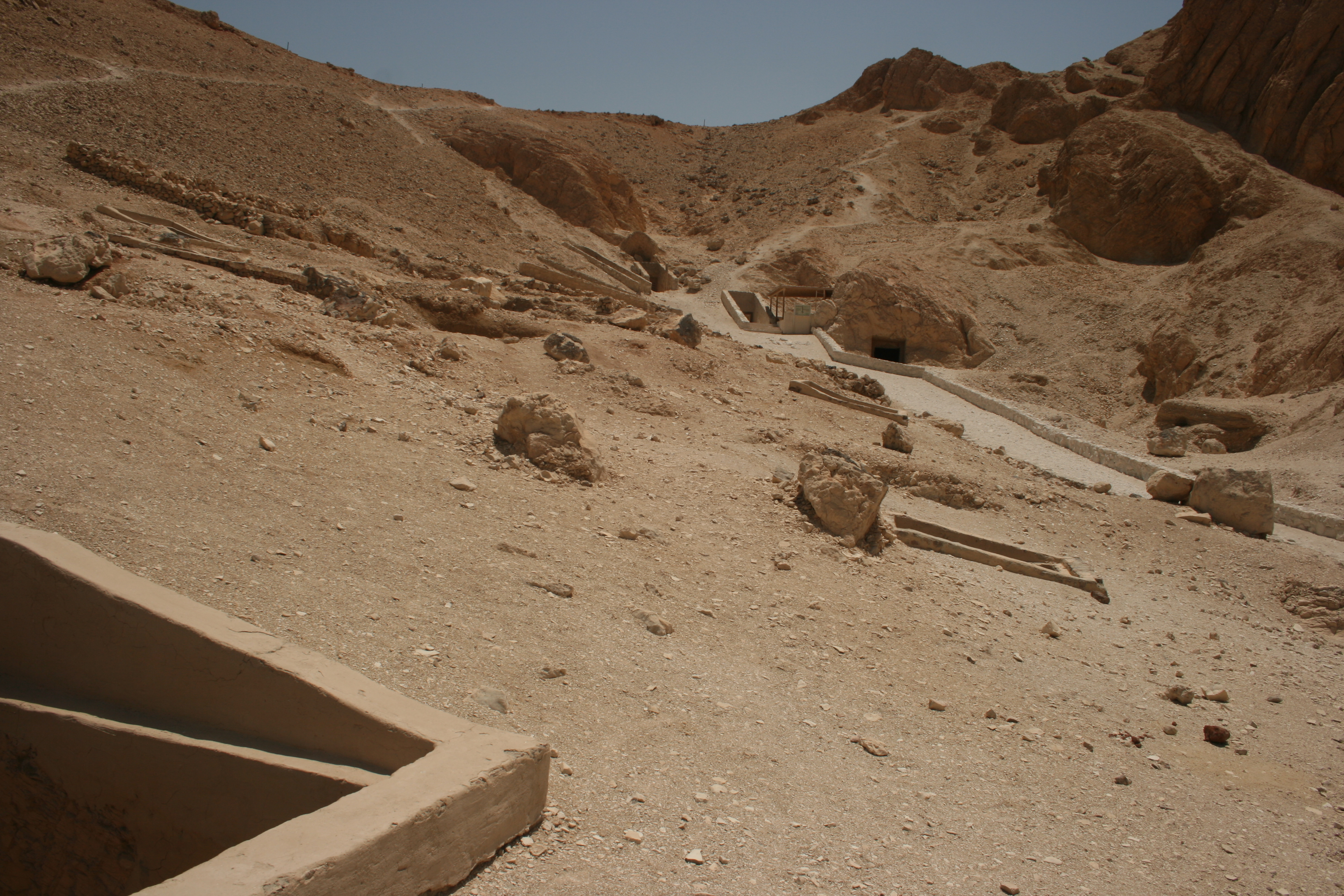 View of Valley of the Queens, near Luxor, Egypt